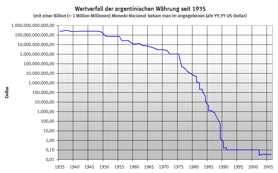 Fall in value of the Argentine currency Moneda Nacional from 1935 until 2005.